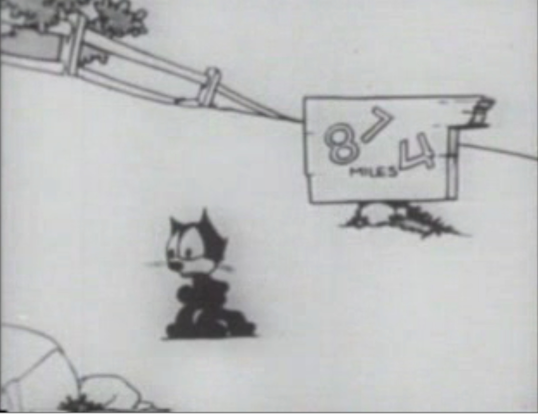 Screen cap form "Non-Stop Fright".